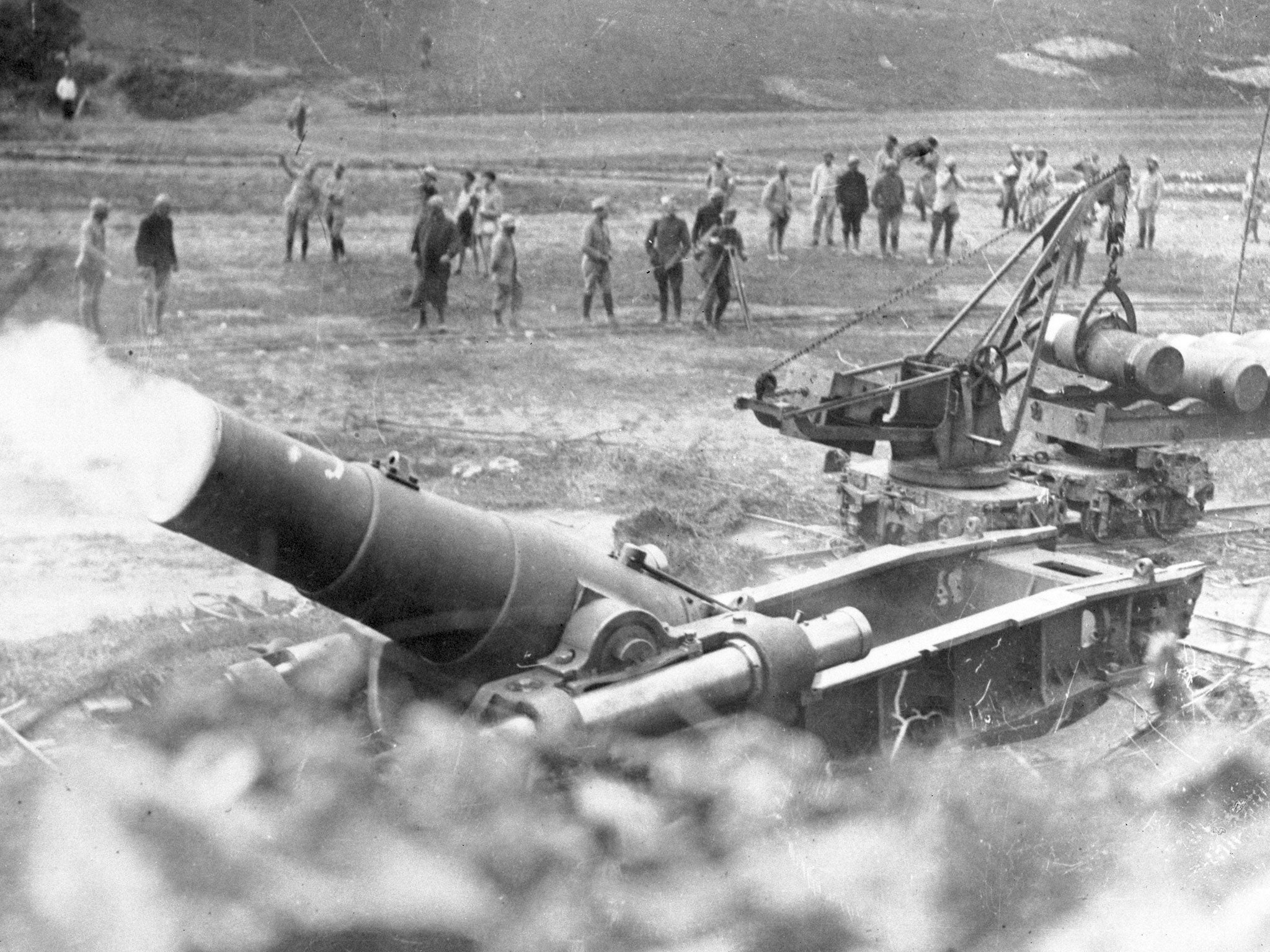 AWM caption : "Aisne Area, France. 1916-09-16. A French Army 370mm mortar being fired from a gully known as La Baraquette."